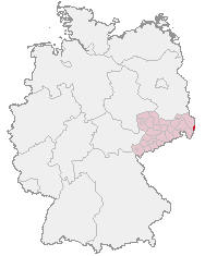 Location map of Görlitz in Germany